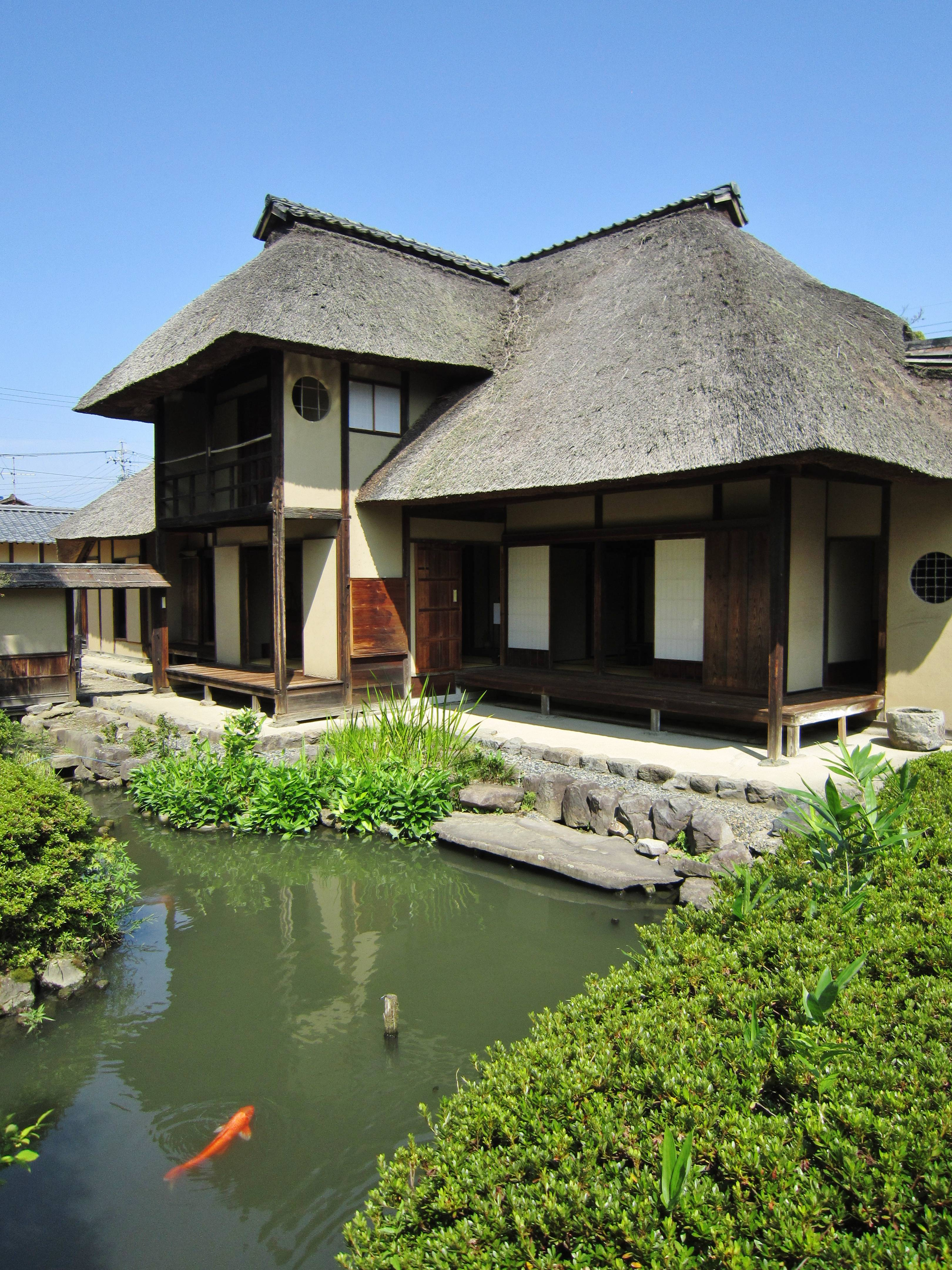 Former Yokota Residence.